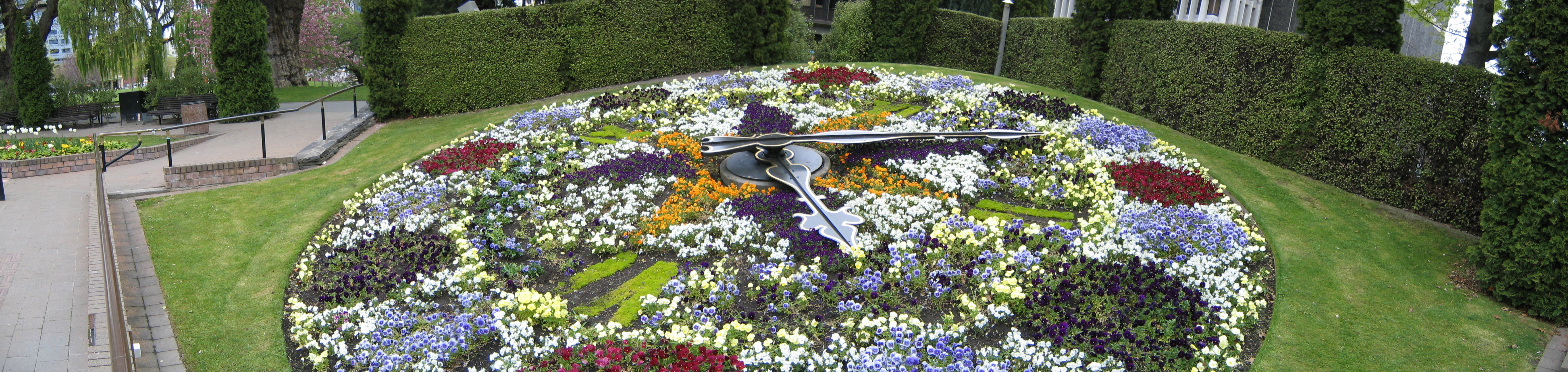 Floral Clock, Victoria Square, Christchurch.